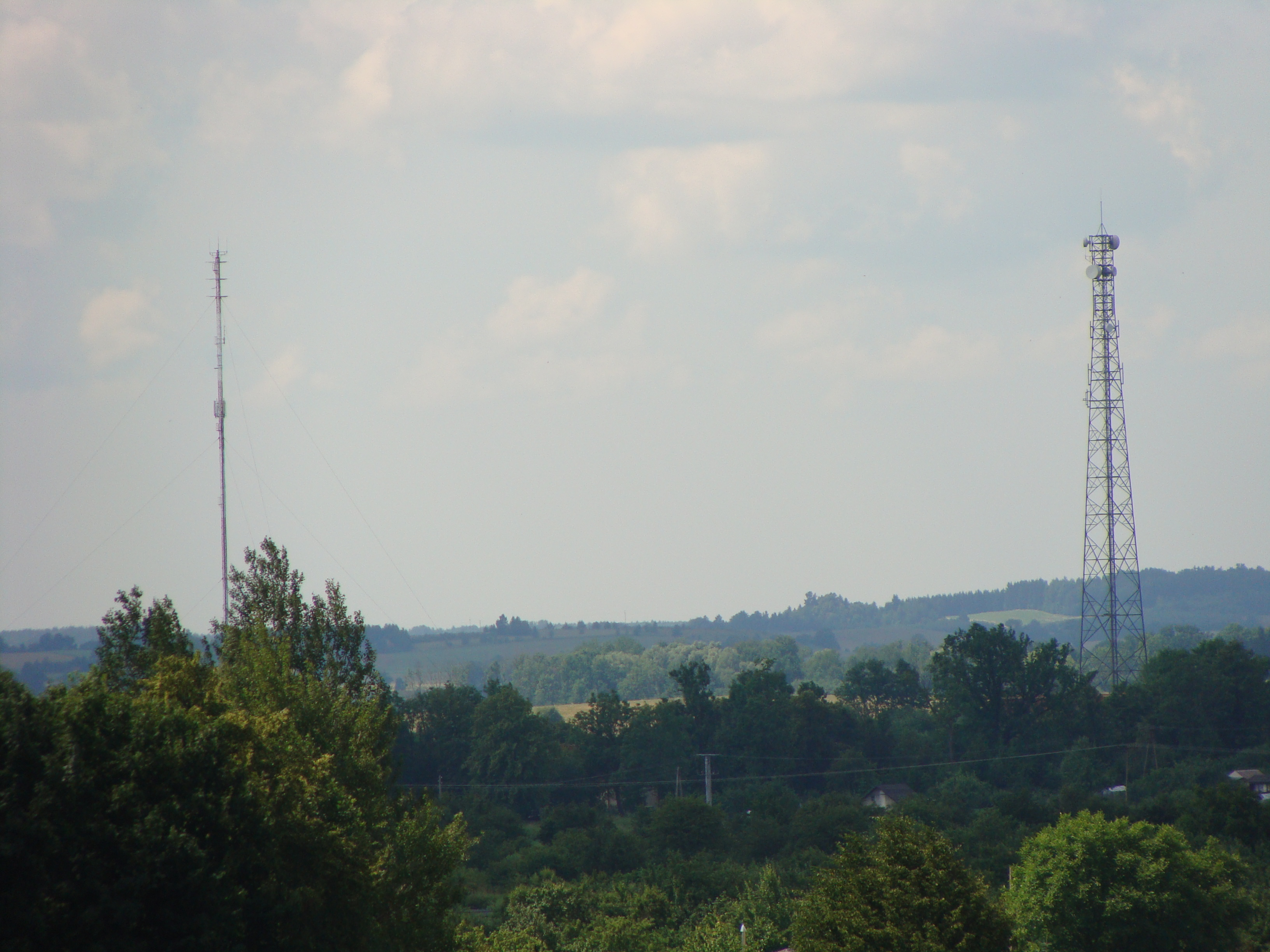 RON and Plus GSM Lidzbark Warmiński